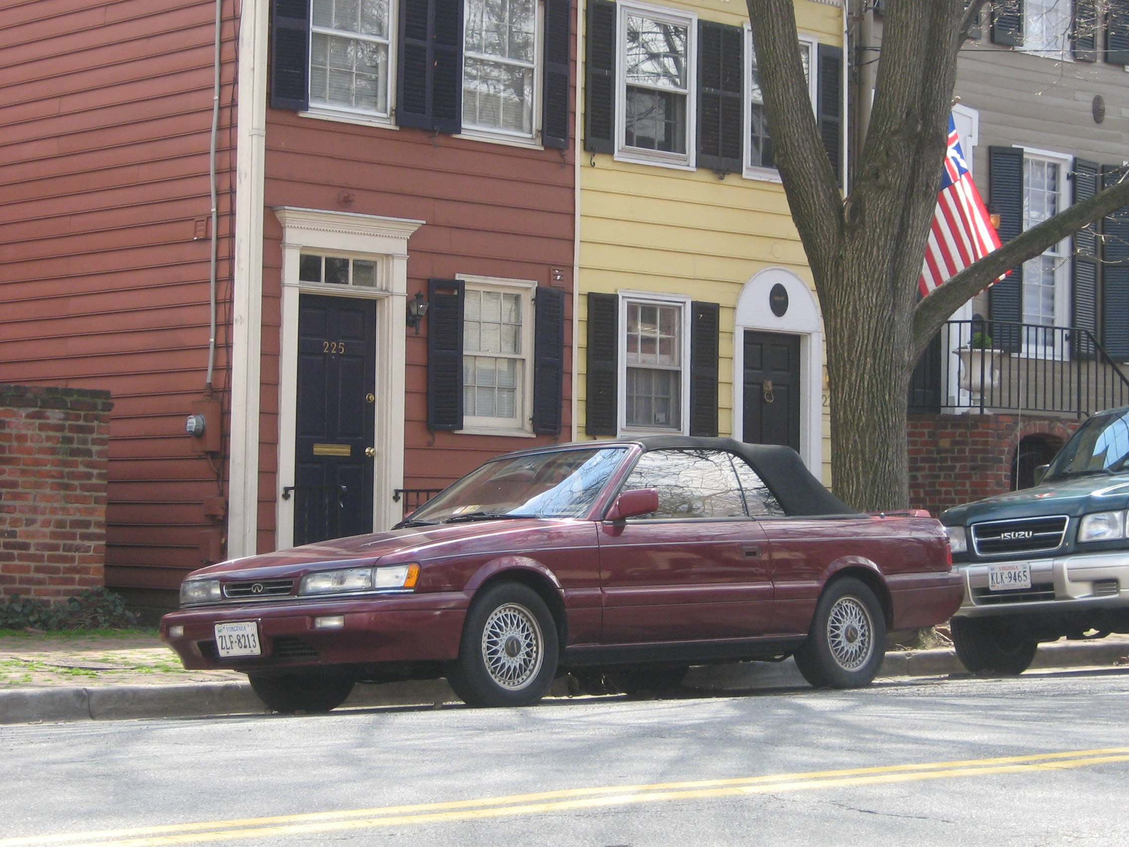 These Infiniti M30 Convertibles were never sold in Canada so this was the first I'd seen.